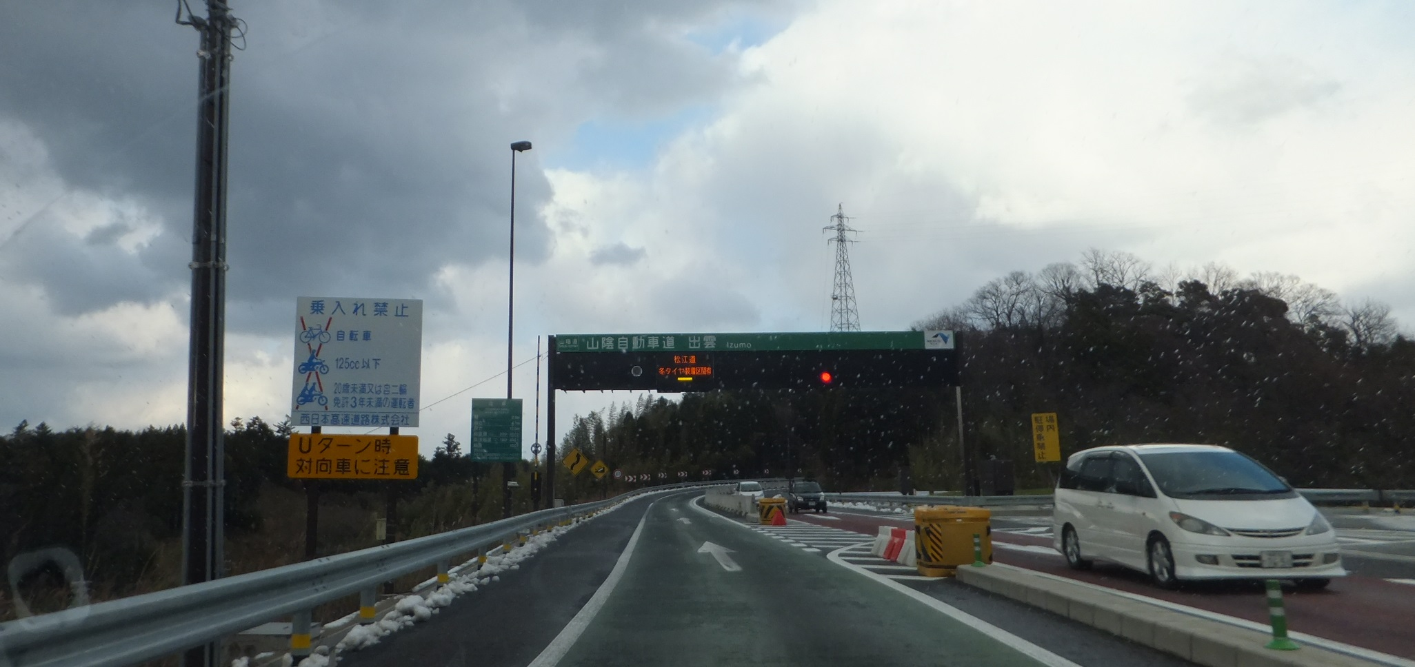 Izumo Interchange on the San-in Expressway